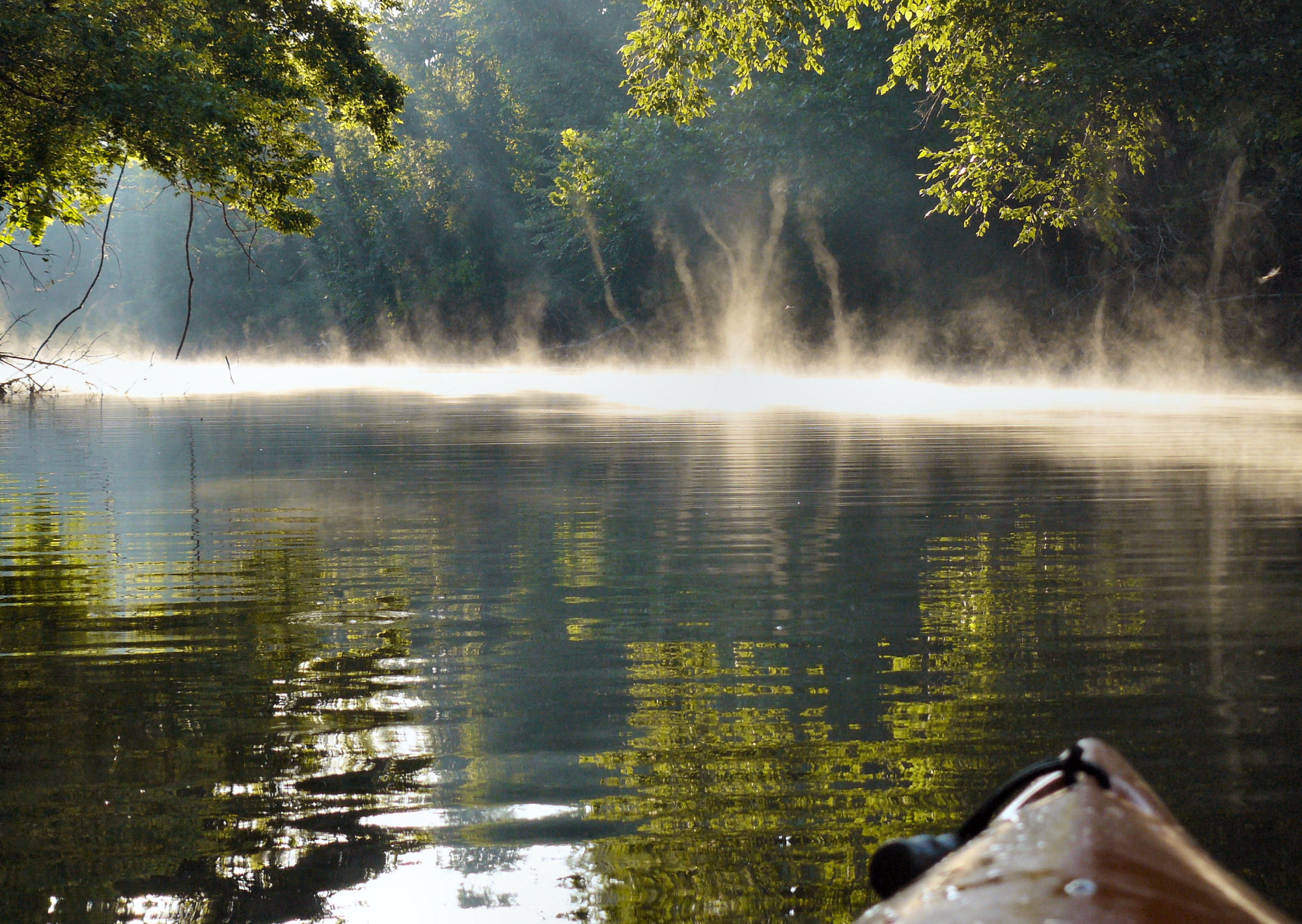 We encountered strange mists during our morning of kayaking on Grave Creek in McIntosh County, Oklahoma. As the sun began to peek through the leafy green canopy of treetops, it created tiny, swirling, white tornados. The mists spiraled upward in thin smoky columns, rising into the golden morning sunlight.